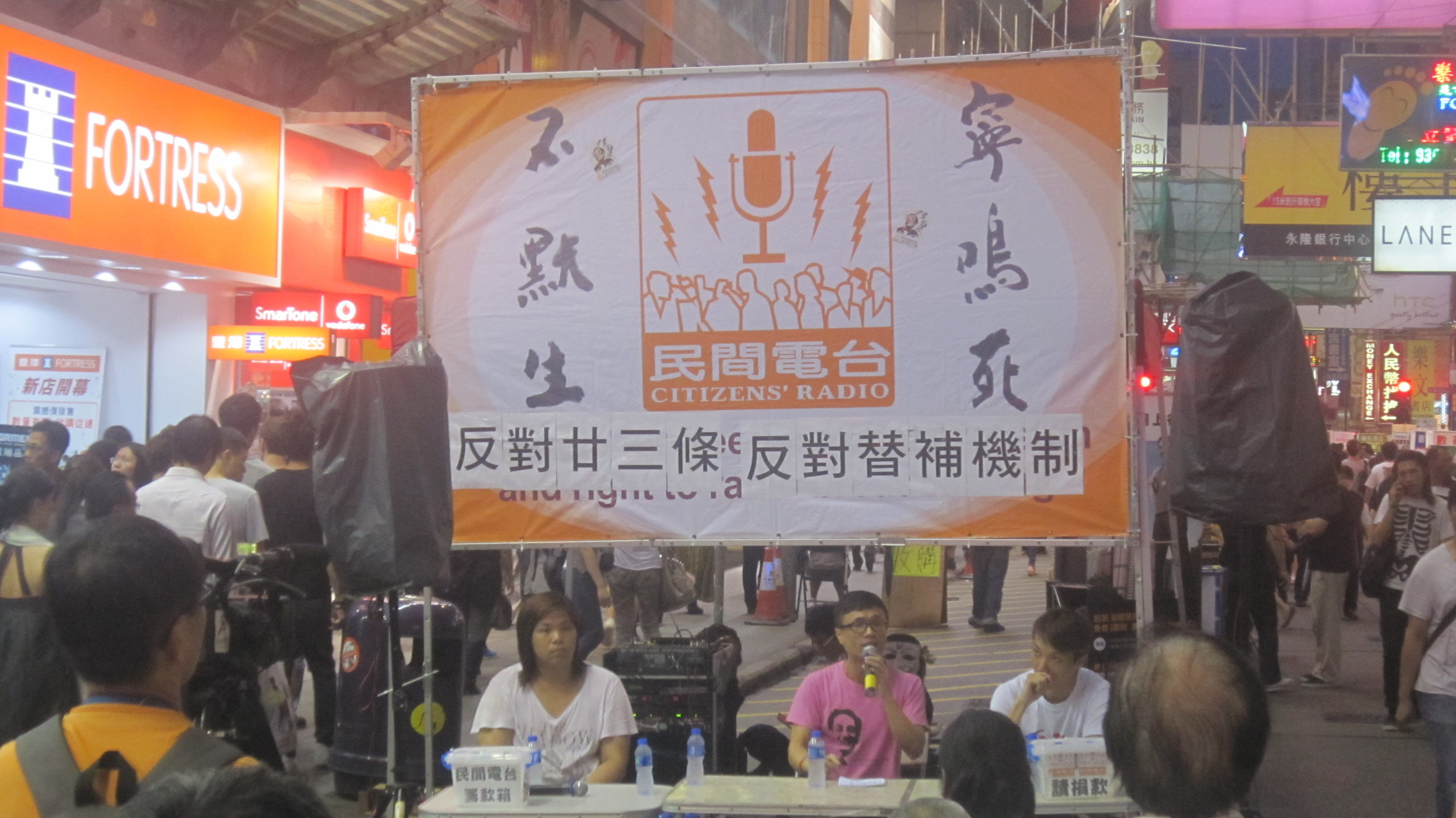 Citizens' Radio on air in Mongkok, Hong Kong